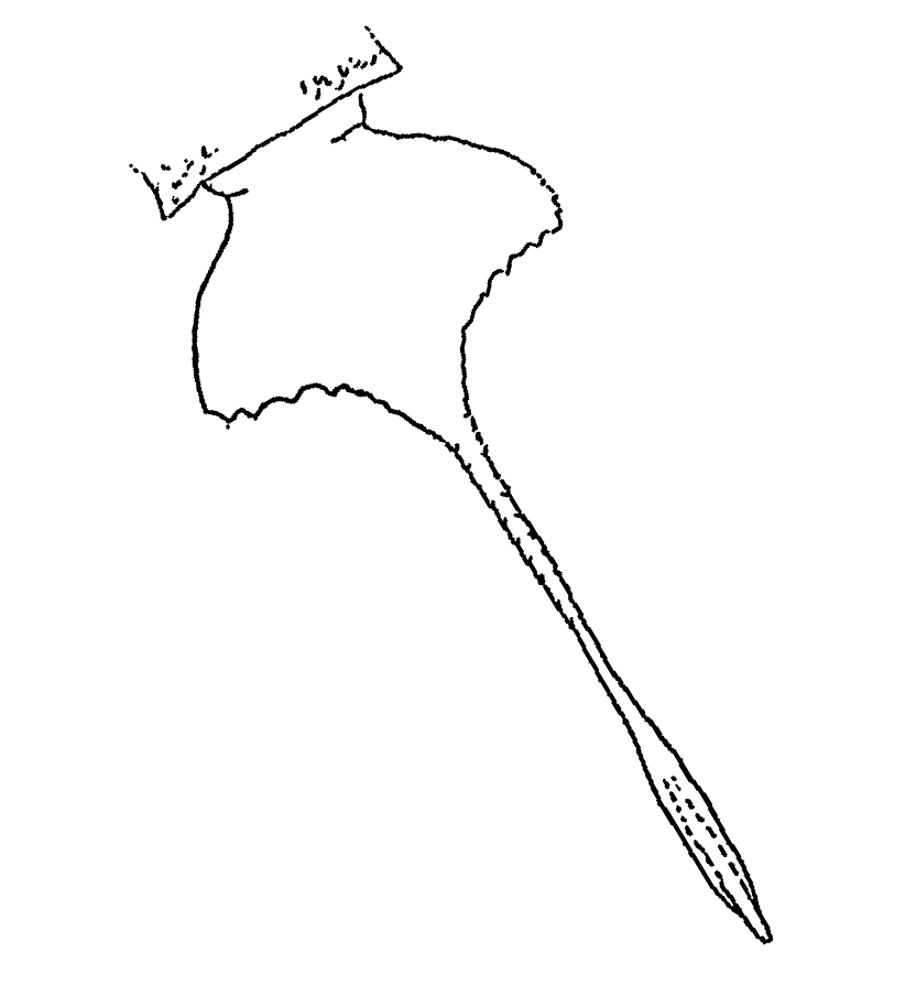 Reconstruction of the telson of eurypterid Salteropterus abbreviatus as it would have appeared in life. Based on figures in Kjellesvig-Waering (1951).